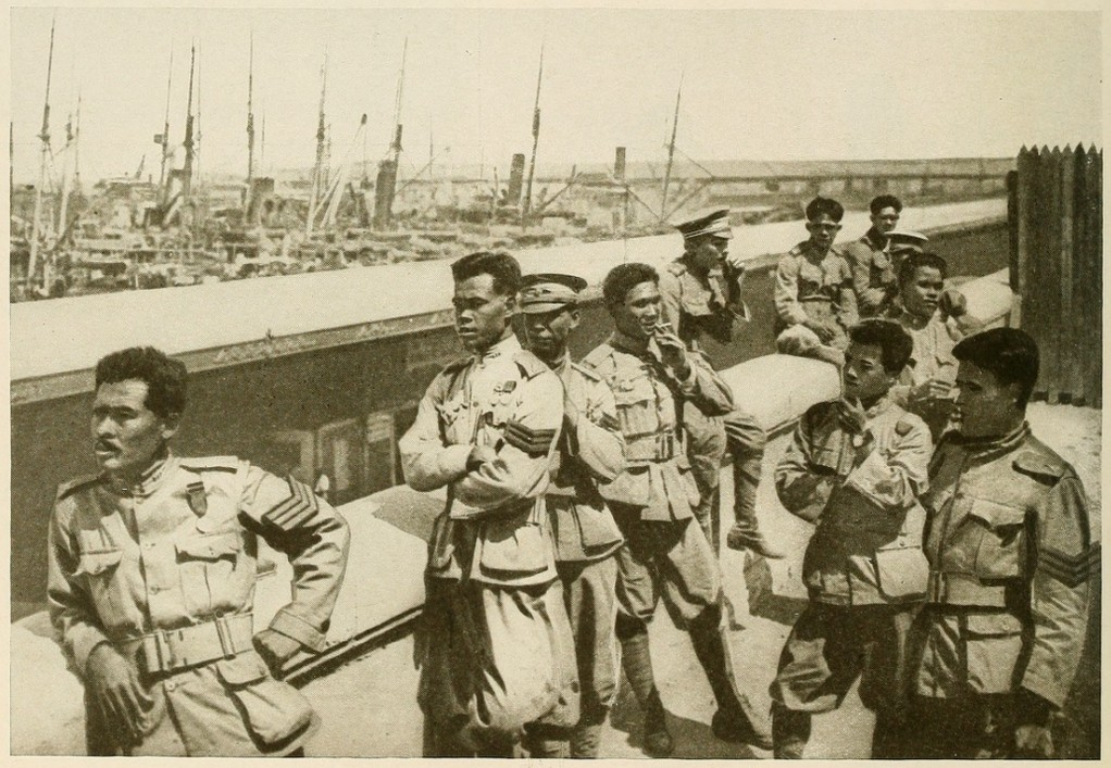 “Siamese troops in Marseilles” - from the book Fighting America's fight.